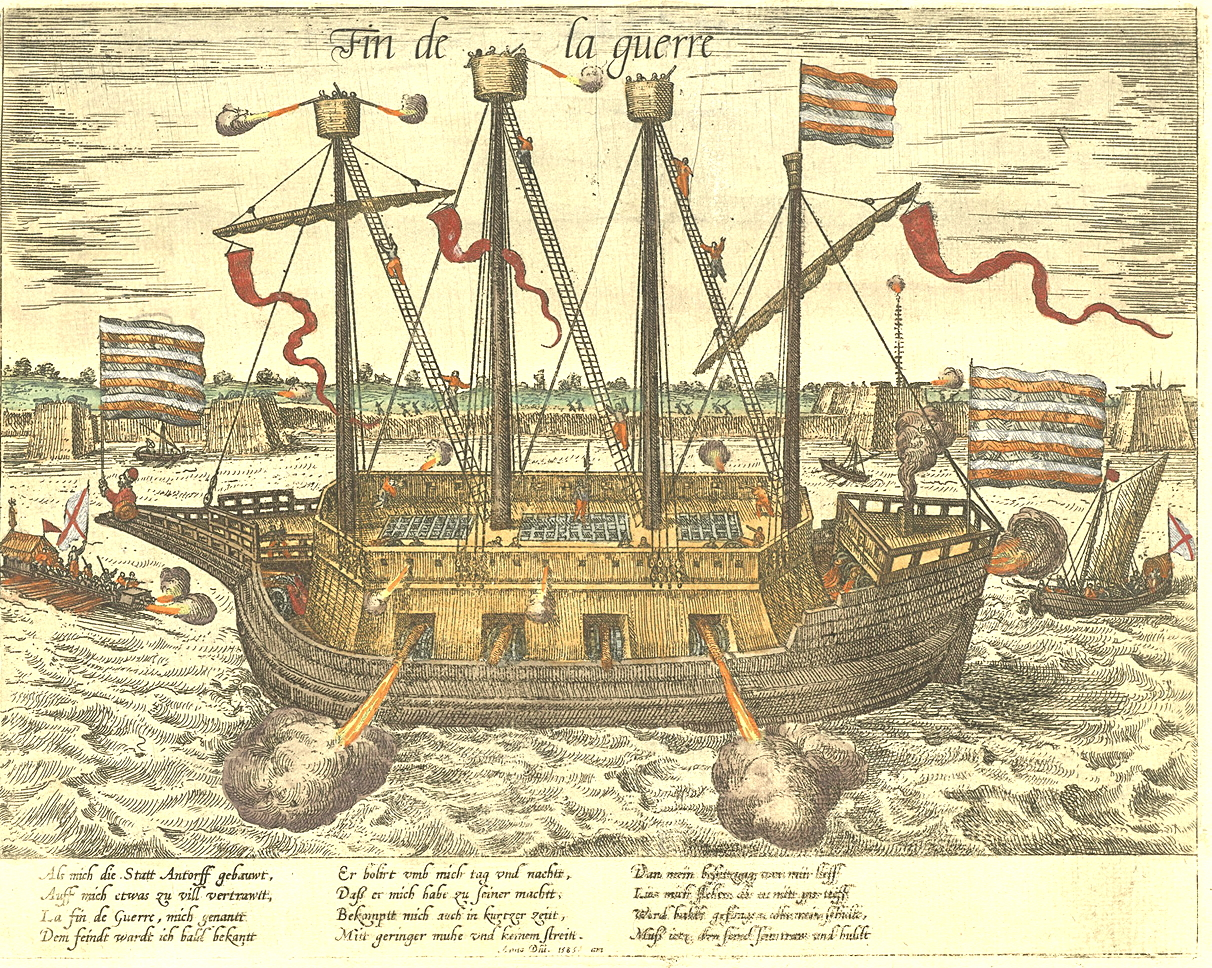 The Dutch ship Fin de la Guerre ("End of War") during the Siege of Antwerp in 1585